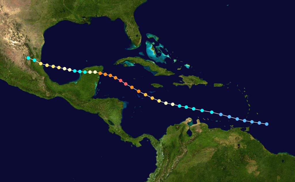 1933 Atlantic hurricane 15 track. Uses the color scheme from the Saffir-Simpson Hurricane Scale.